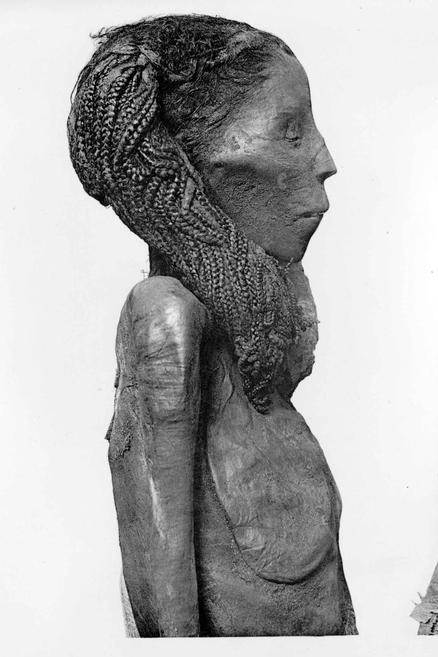 Mummy of Lady Rai, nursemaid of Ahmose-Nefertari, herself queen of pharaoh Ahmose, discovered in a Theban Tomb in 1881. End of 17th-beginning of 18th dynasty; now in Cairo Museum.